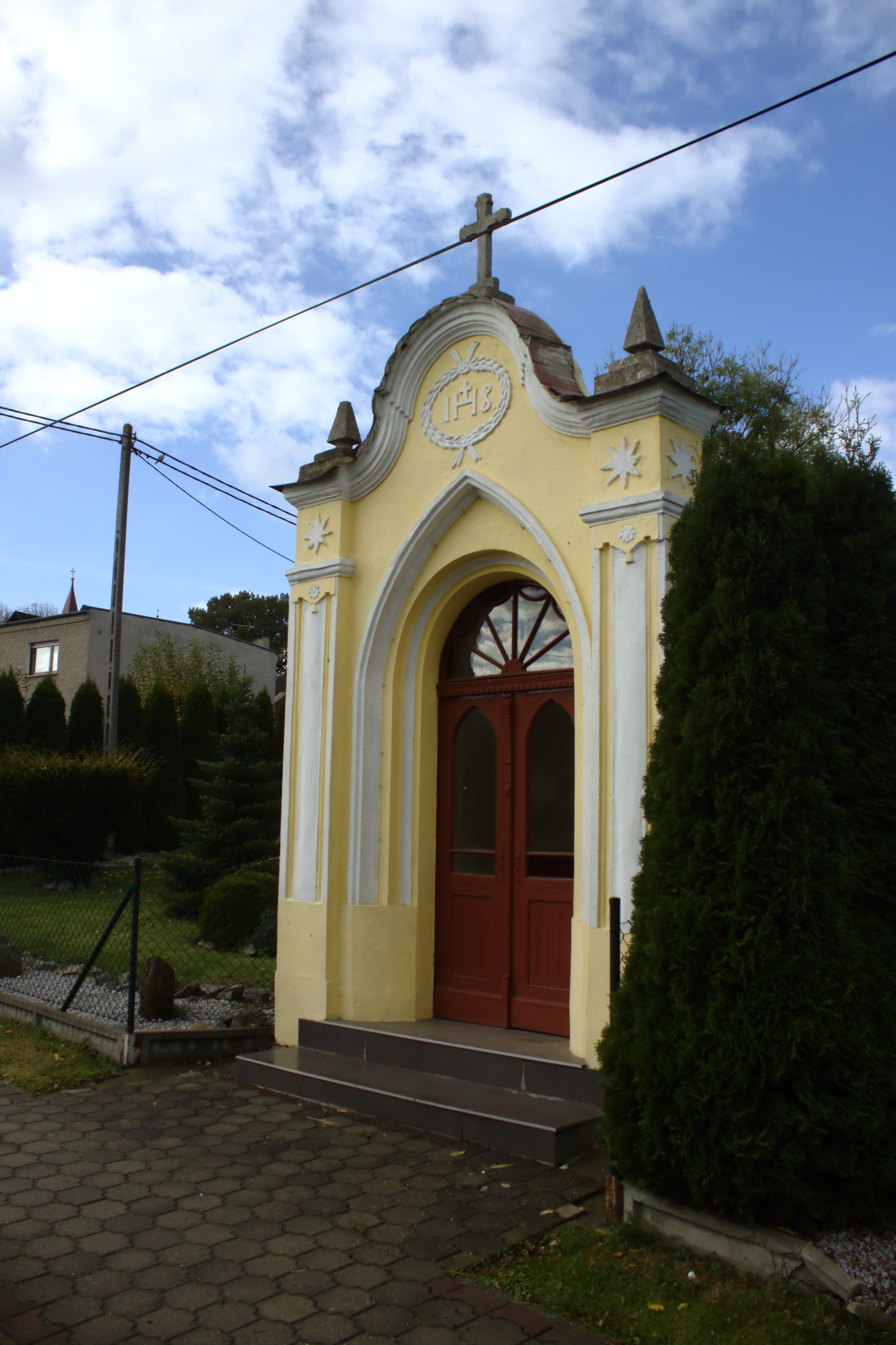 A chapel in the village of Bolesław, Silesian Voivodeship, Poland